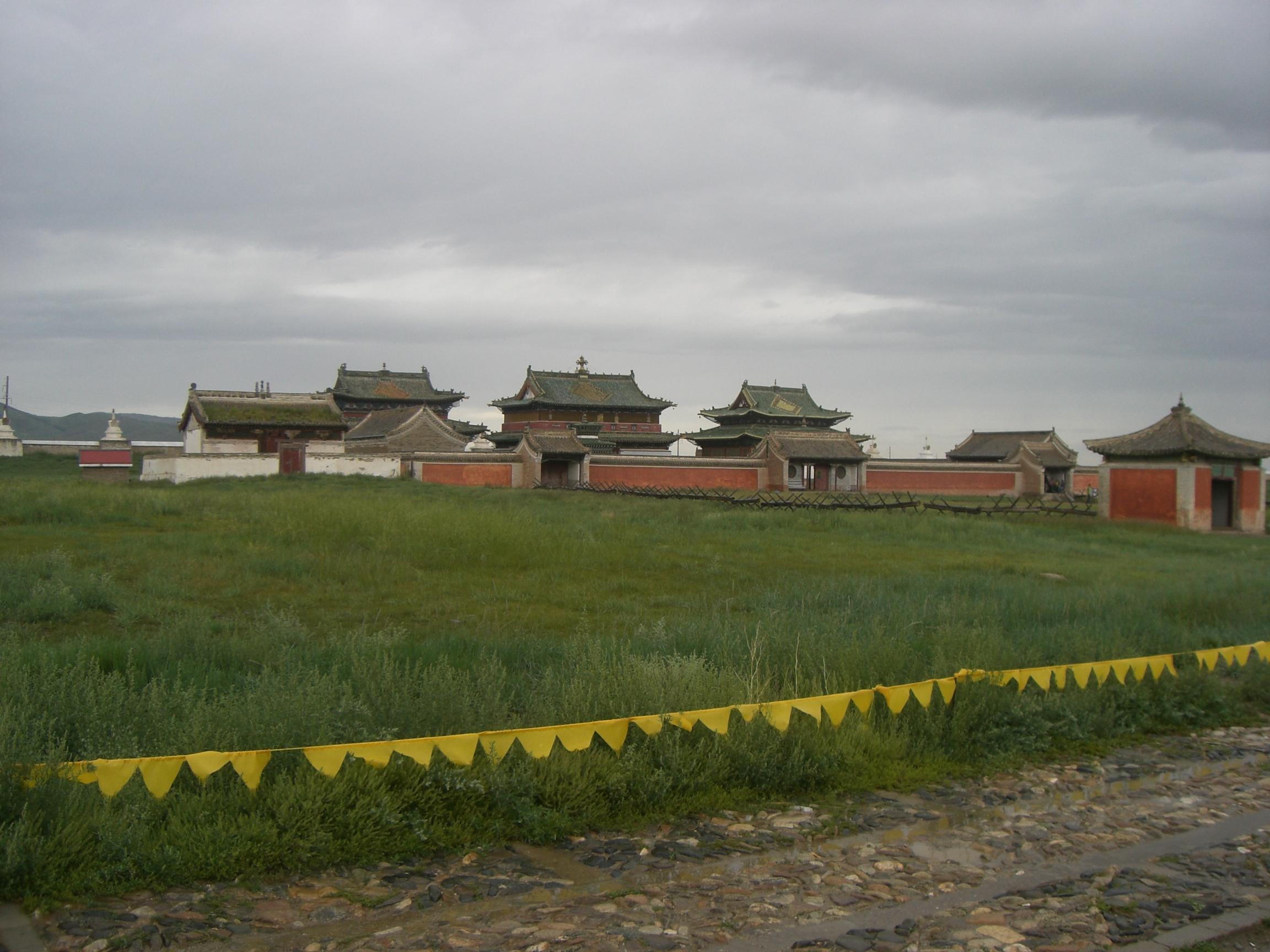 Monastery Erdene Zuu in Mongolia